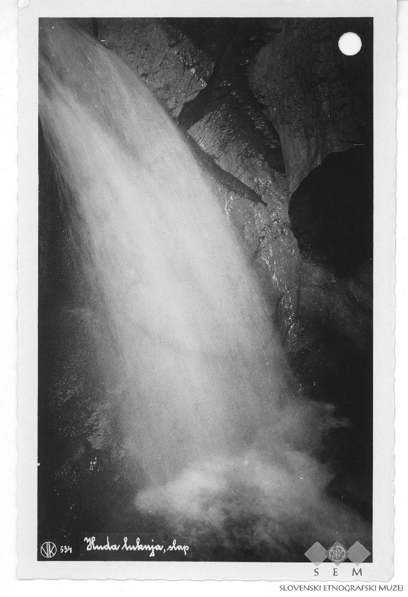 Postcard of Huda Luknja Falls (the Ponikva River).